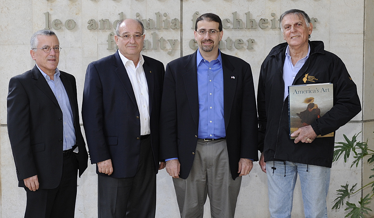 On his first visit to Haifa, United States Ambassador to Israel, Dan B. Shapiro, visited the Technion, where he was welcomed by Technion President Prof. Peretz Lavie. He met and congratulated Nobel Laureate Distinguished Professor Dan Shechtman, the Technion’s third Nobel laureate and sole winner of the 2011 Nobel Prize in Chemistry for his discovery of quasicrystals, a new form of matter.